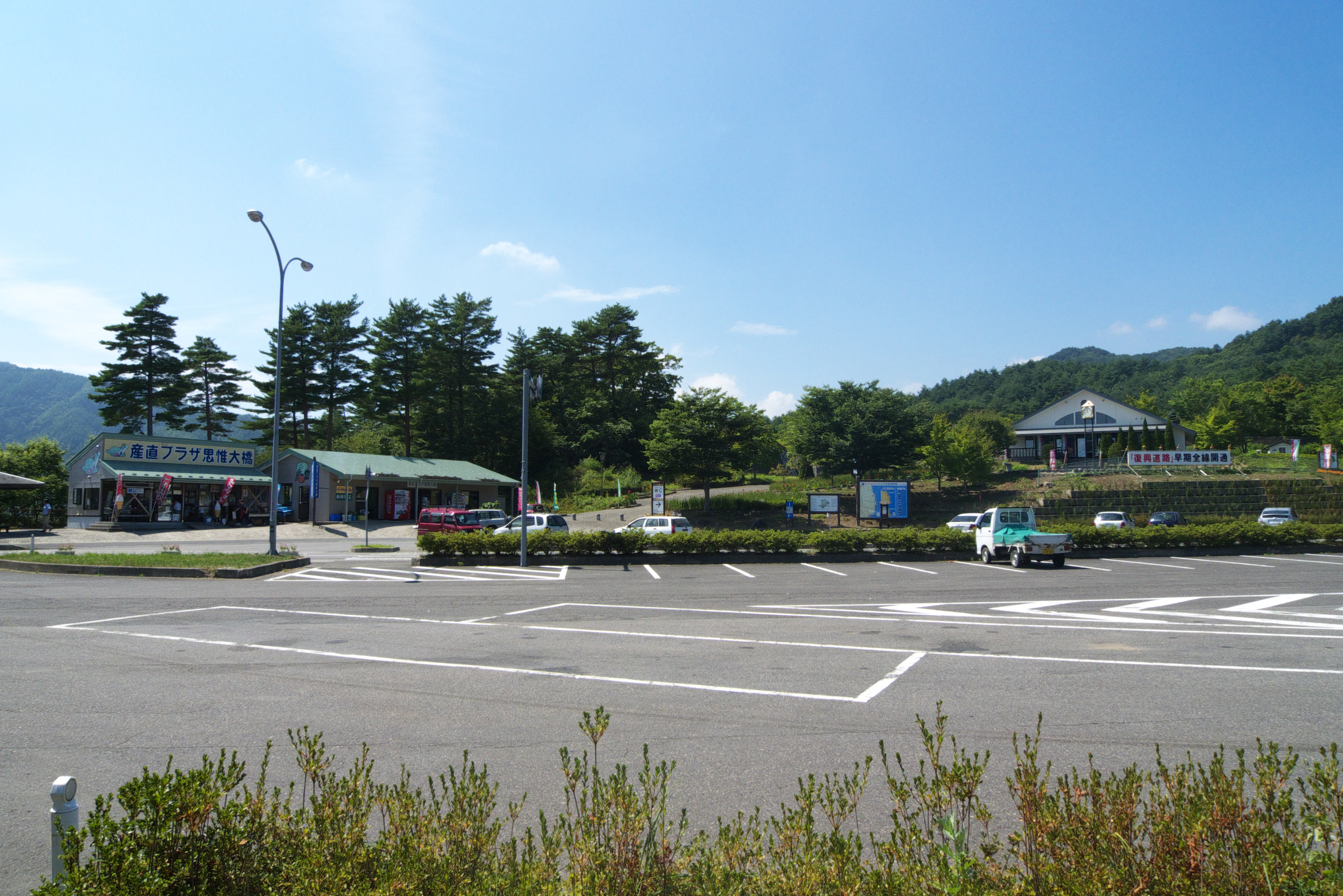 Michinoeki Tanohata on the National Route 45 in Tanohata Village, Iwate Prefecture, Japan